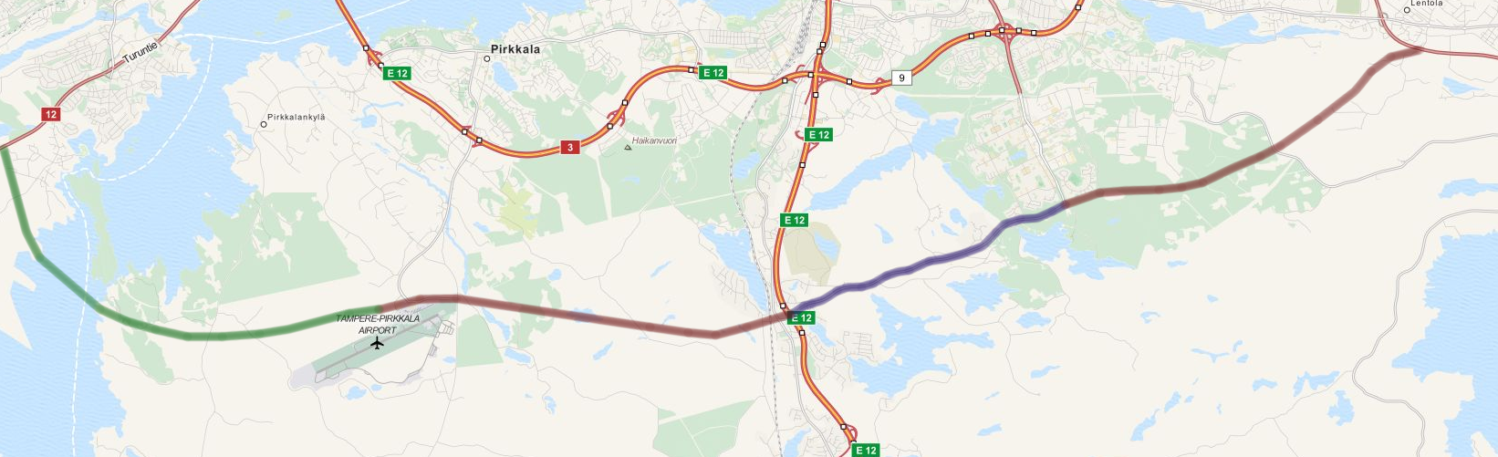 Unofficial draft of second ring road of Tampere in Finland. The blue coloured road is currently exists, red coloured road will possibly be built at first and the green road routing is questionable.